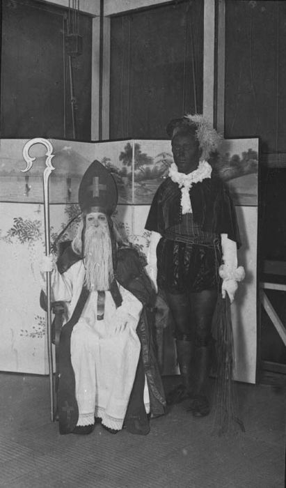 Misters Baum and Schreuder playing St Nicholas and his companion 'Zwarte Piet'